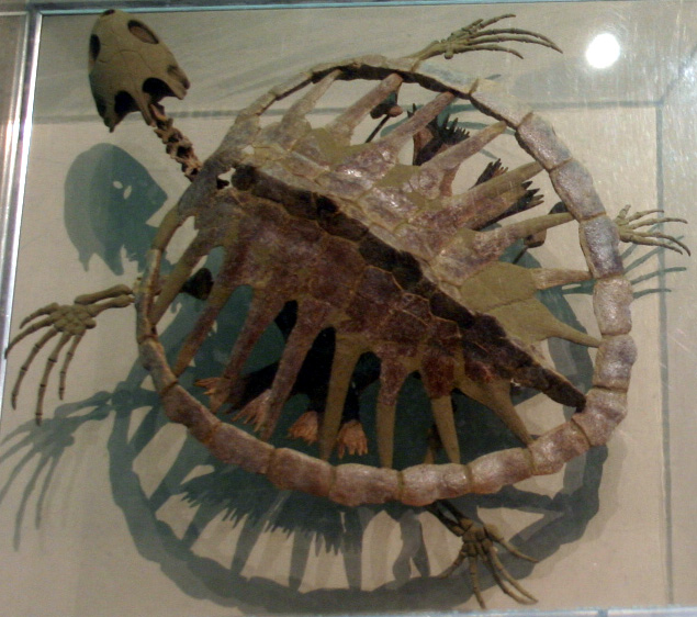 Skeletal mount of Prionochelys matutina from the Late Cretaceous of Kansas. Smithsonian National Museum of Natural History: Hall of Fossils.